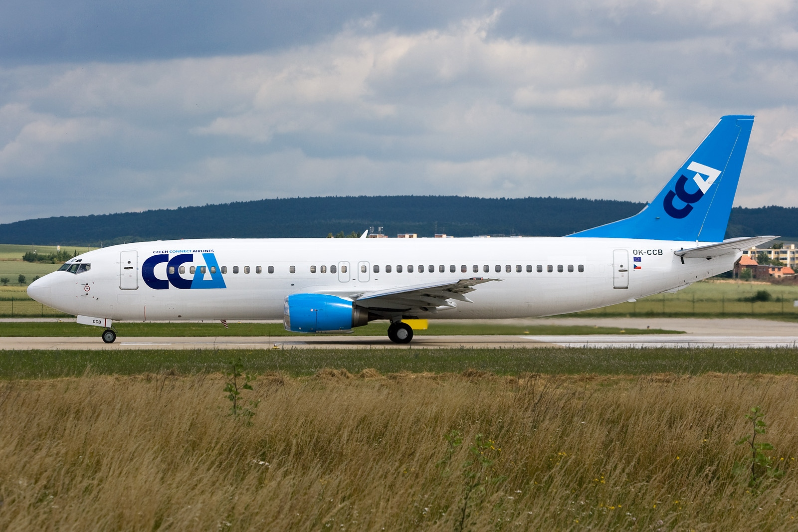 Boeing 737-400 OK-CCB operated by Czech Connect Airlines at Brno-Turany International airport.